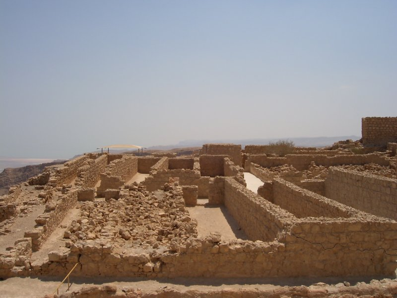 Isreal - The Masada Fortess